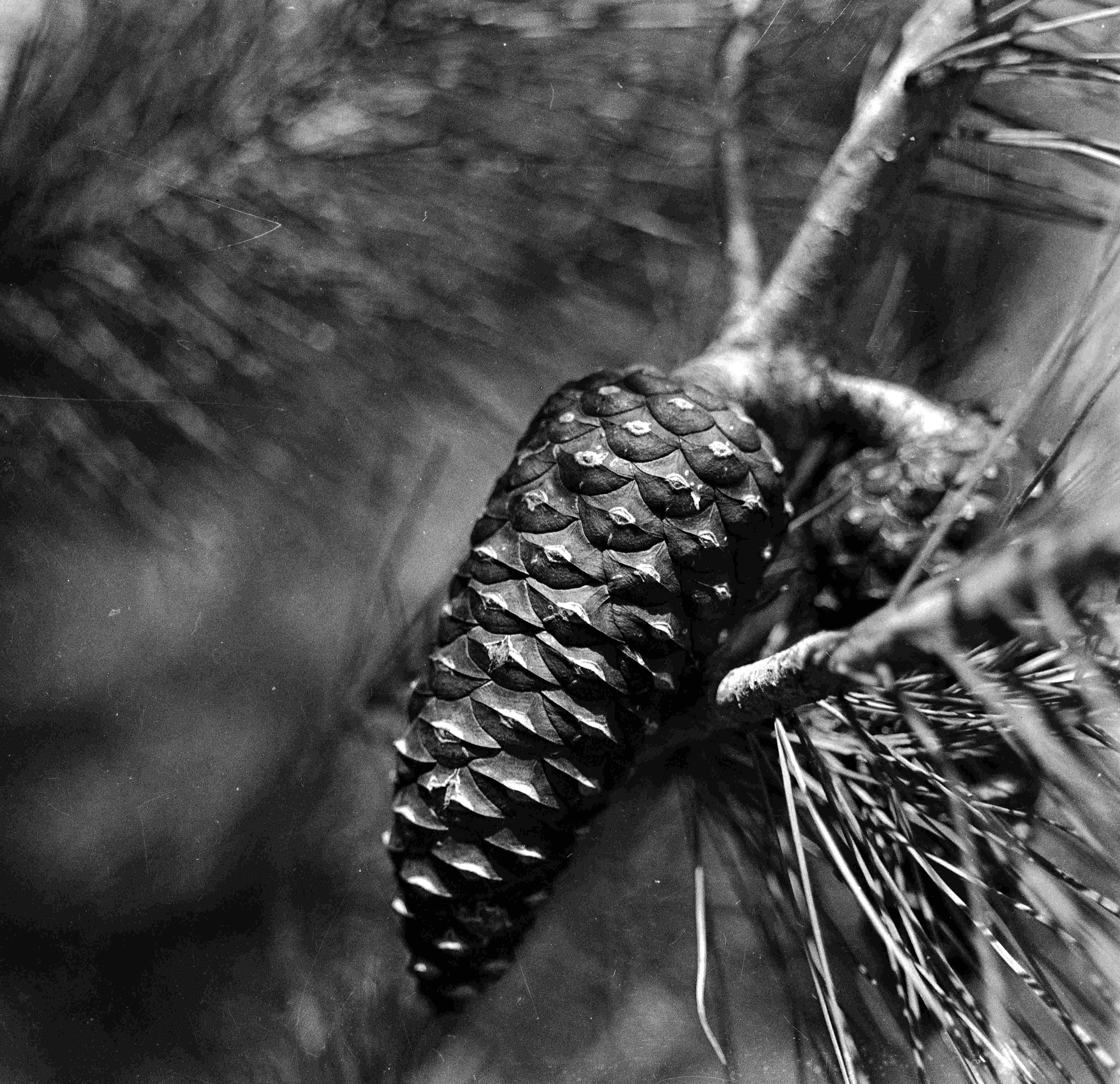 An Aleppo Pine cone (Palestine, 1939)